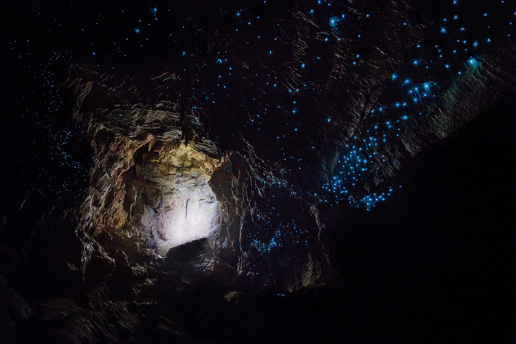 Waitomo caves with the glowworms